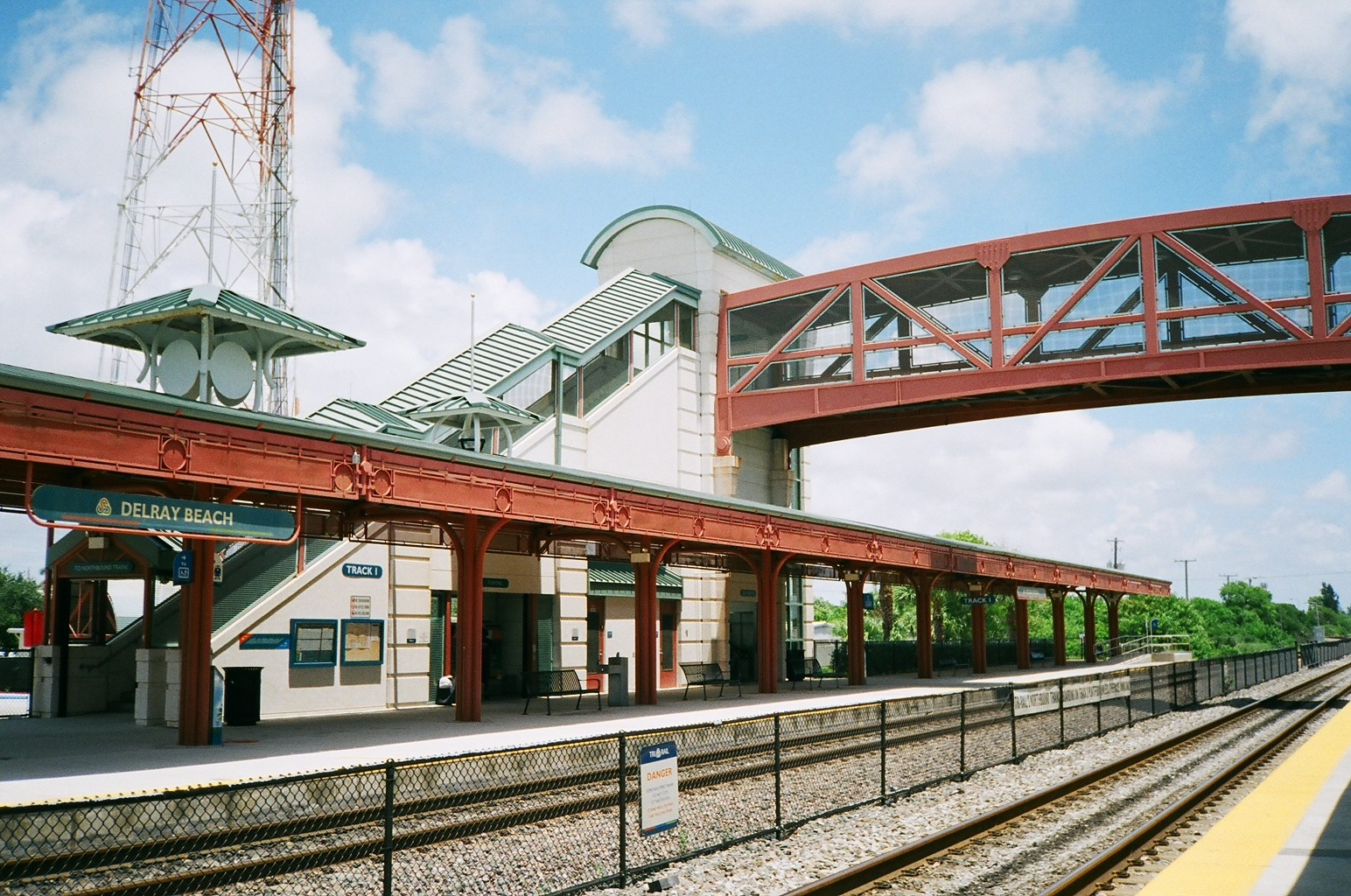 Minolta Freedom Dual and CVS (Fuji) 200 film.